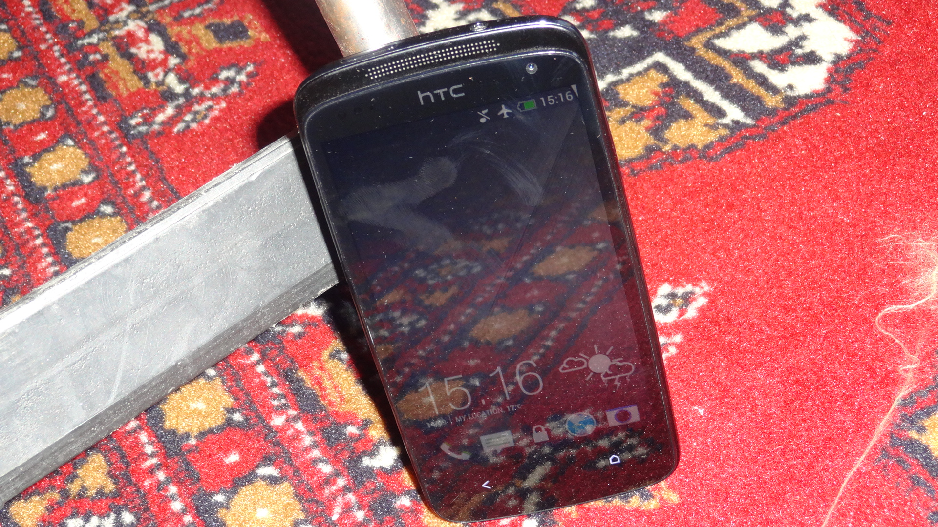 An HTC Desire 500 dual sim black model. Running Android 4.1.2 Jelly Bean